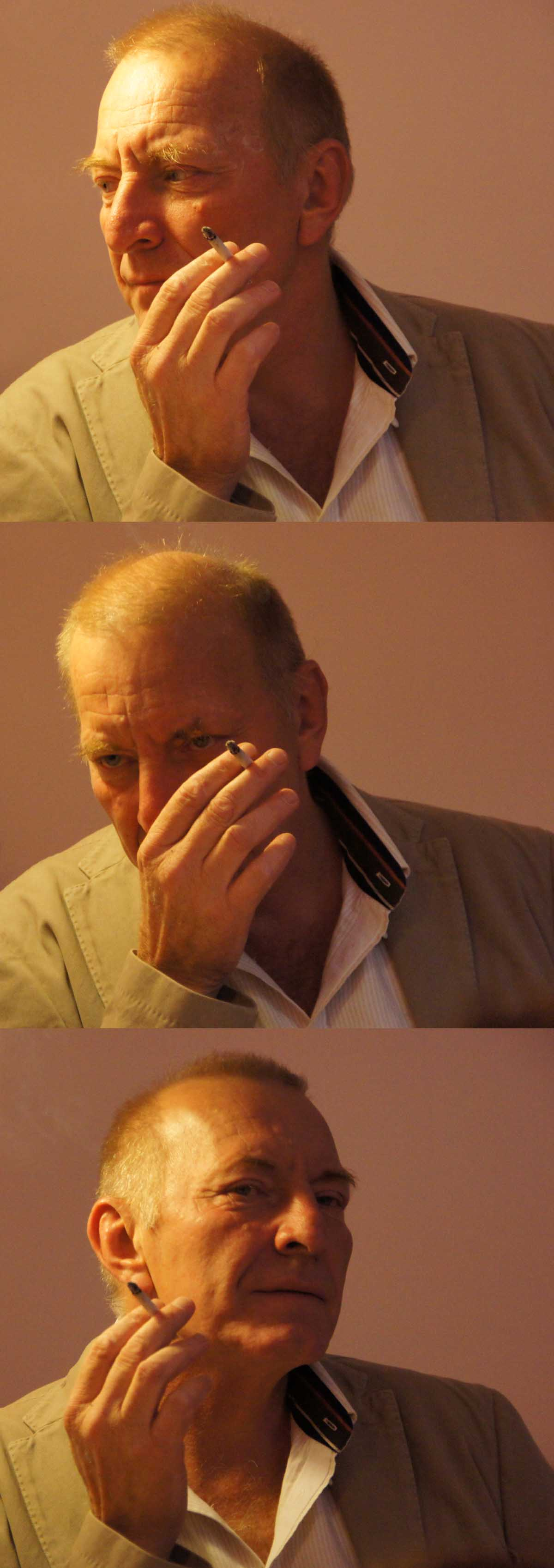 Swiss writer Christoph Braendle sequence. The shots were taken on occasion of Swiss writer's Rolf Lappert reading from his recent novel "Pampa Blues" in bookshop tiempo nuevo, Vienna, Austria.